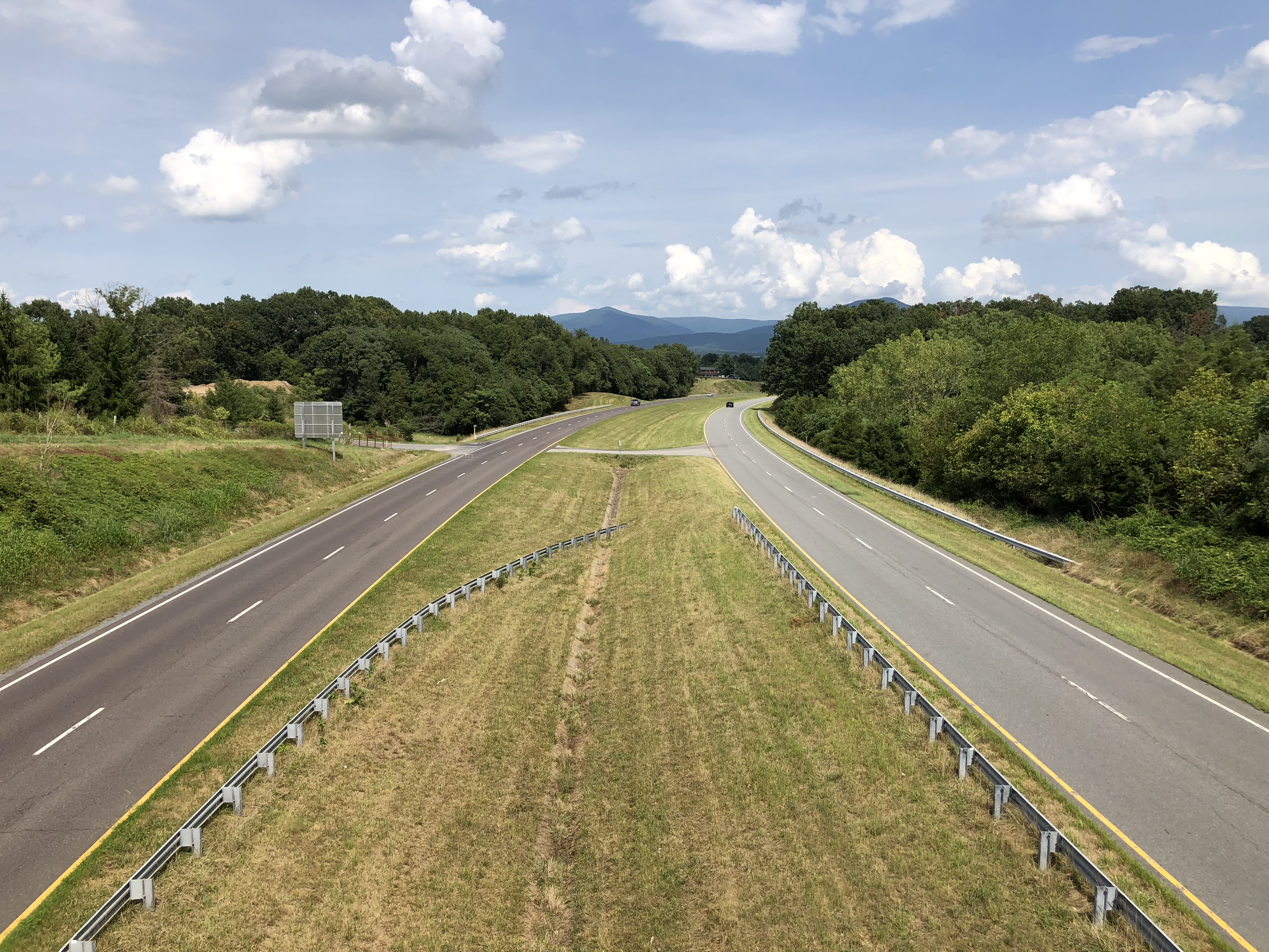 View east along U.S. Route 211 and north along U.S. Route 340 (Lee Highway/Luray Bypass) from the overpass for Virginia State Route 675 (Bixler's Ferry Road) just northwest of Luray in Page County, Virginia